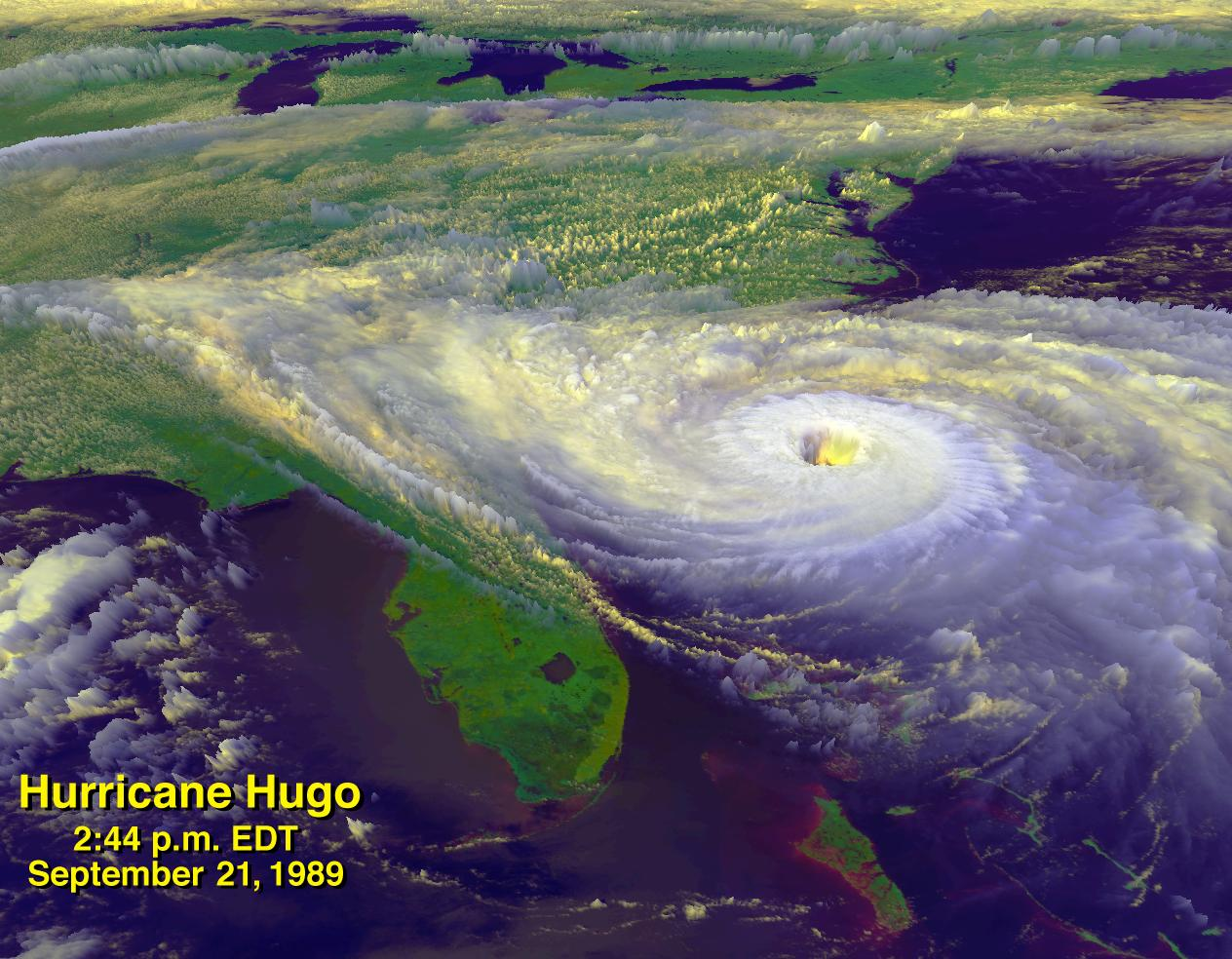 Perspective view of Hurricane Hugo on 21 September 1989 at 14:44 EDT by GOES-7 (Geostationary Operational Environmental Satellites), as the hurricane approaches Charleston, South Carolina.